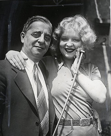 Press photo of Robert and Clara Bow, June 1931